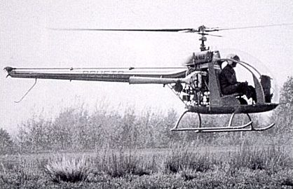 Agusta A.103 1959 photo, source and author unknown. Per below, Italian copyright expired in the 1979, therefore not copyrighted in the US.